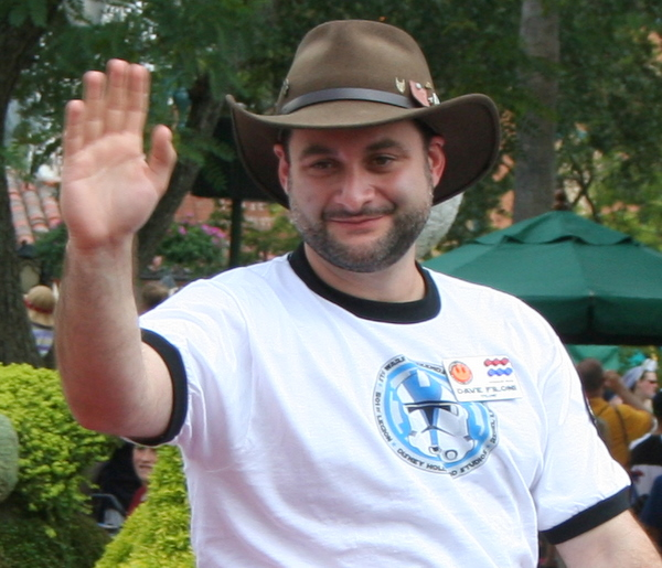 Dave Filoni at Star Wars Weekend at the Disney Hollywood Studios in Orlando, FL